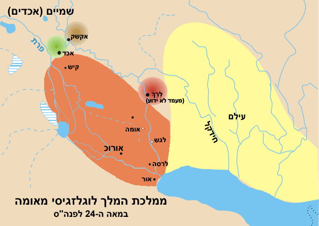 Kingdom of king Lugalzagesi of Umma.